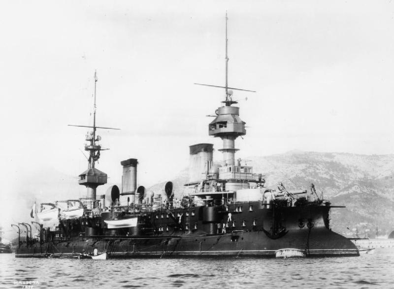 Symonds and Co Collection French Battleship MASSENA, 1900.